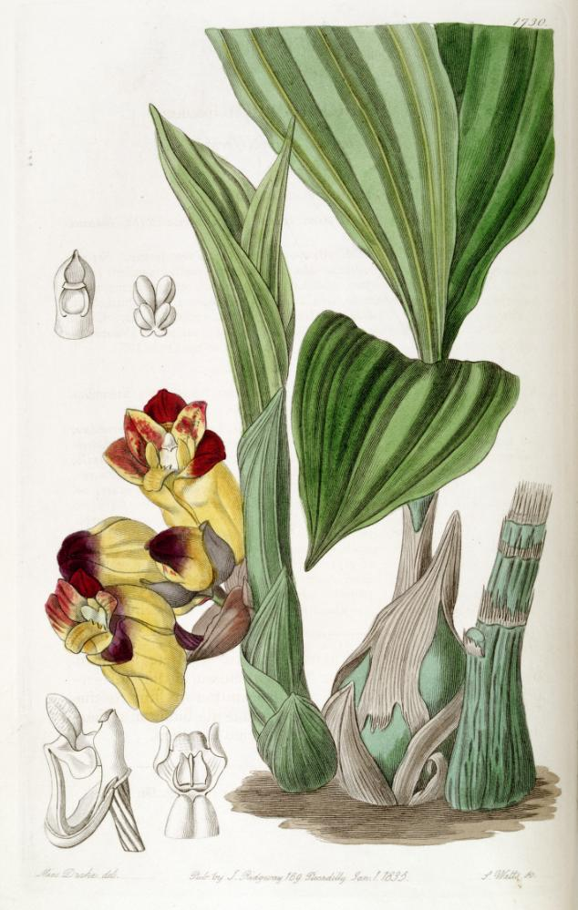 Illustration of Acanthephippium bicolor (Orig. Acanthophippium bicolor)